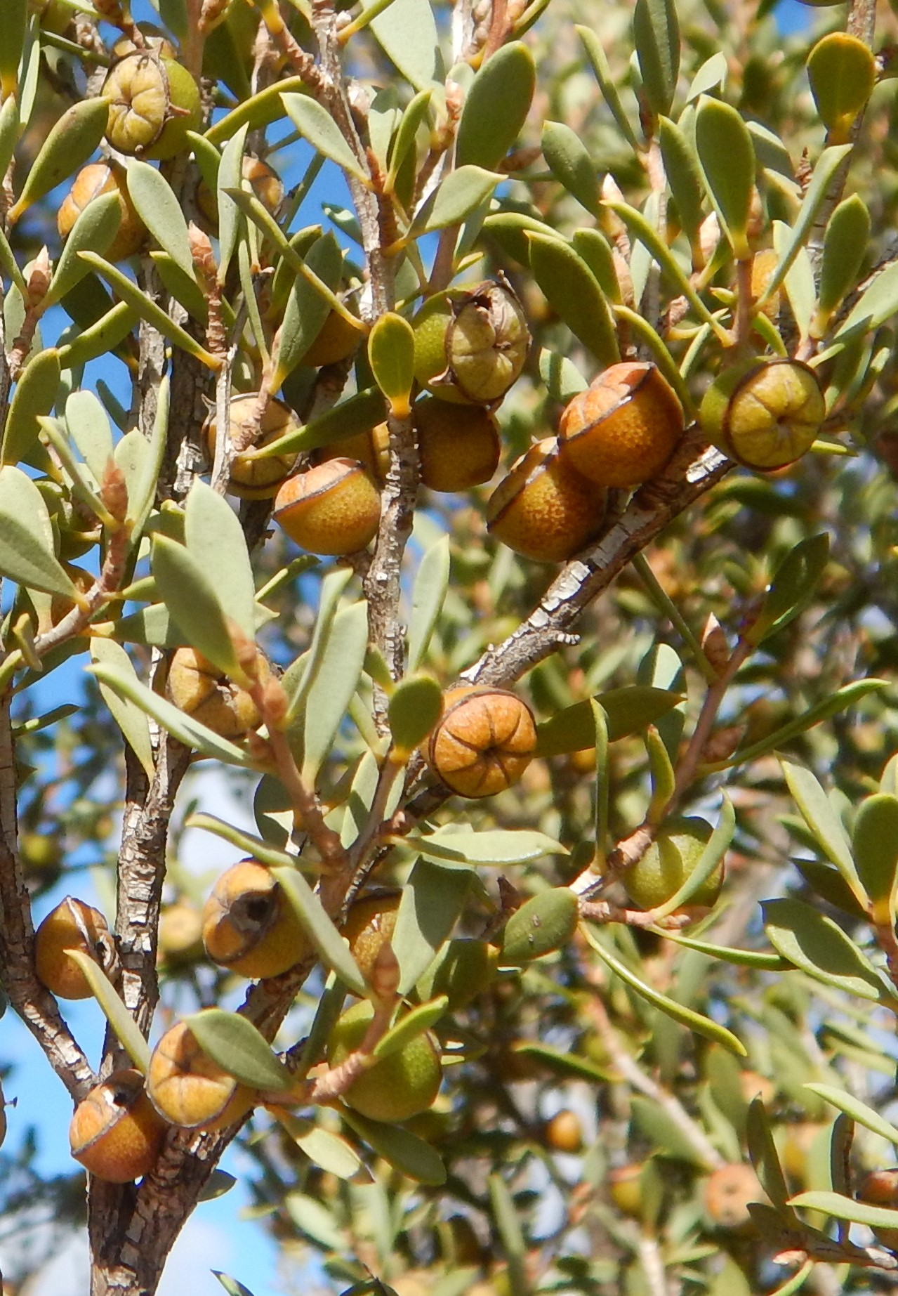 Fruit os Leptospermum coriaceum in the Ngarkat Conservation Park, South Australia